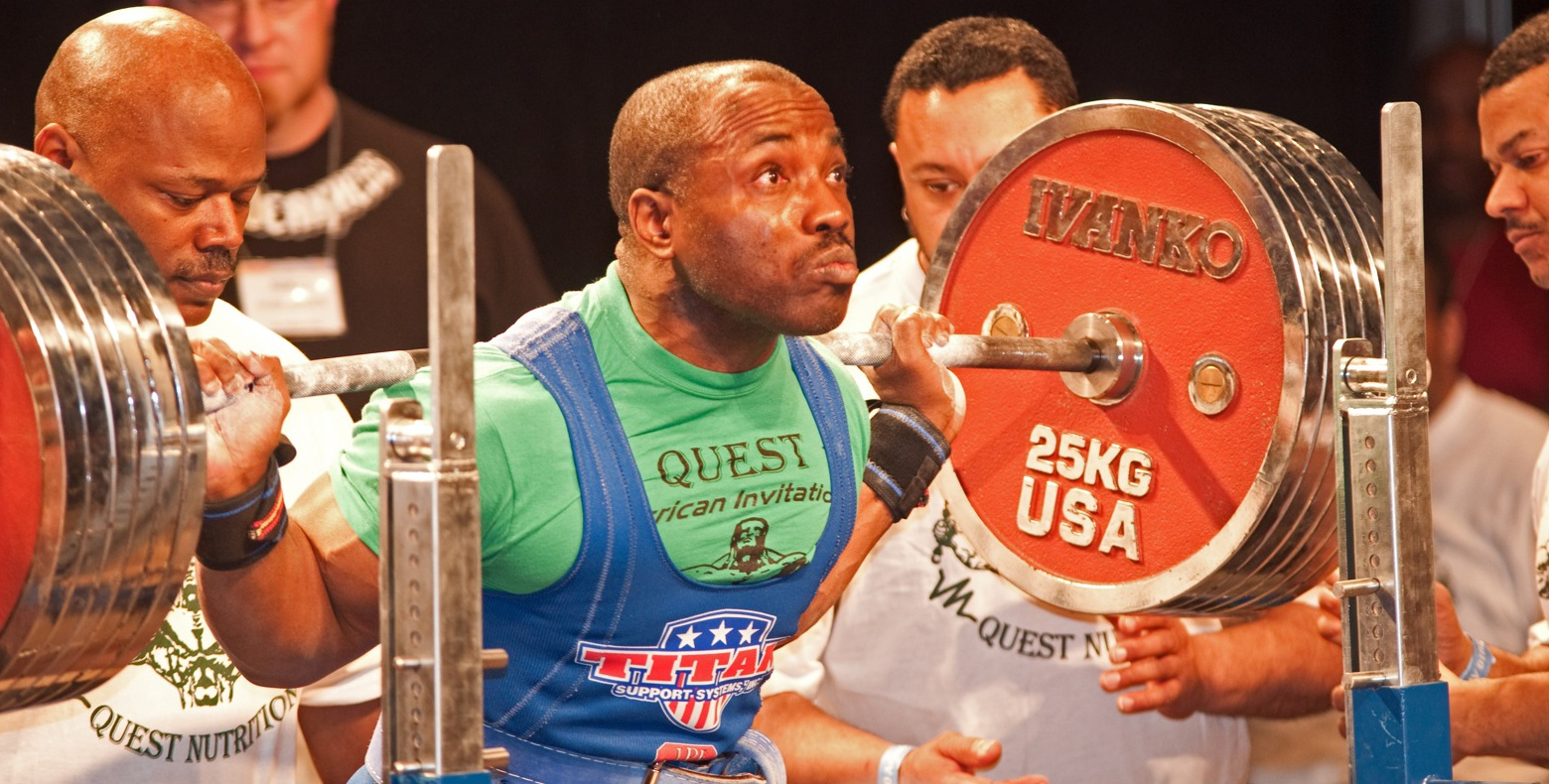 Squat press